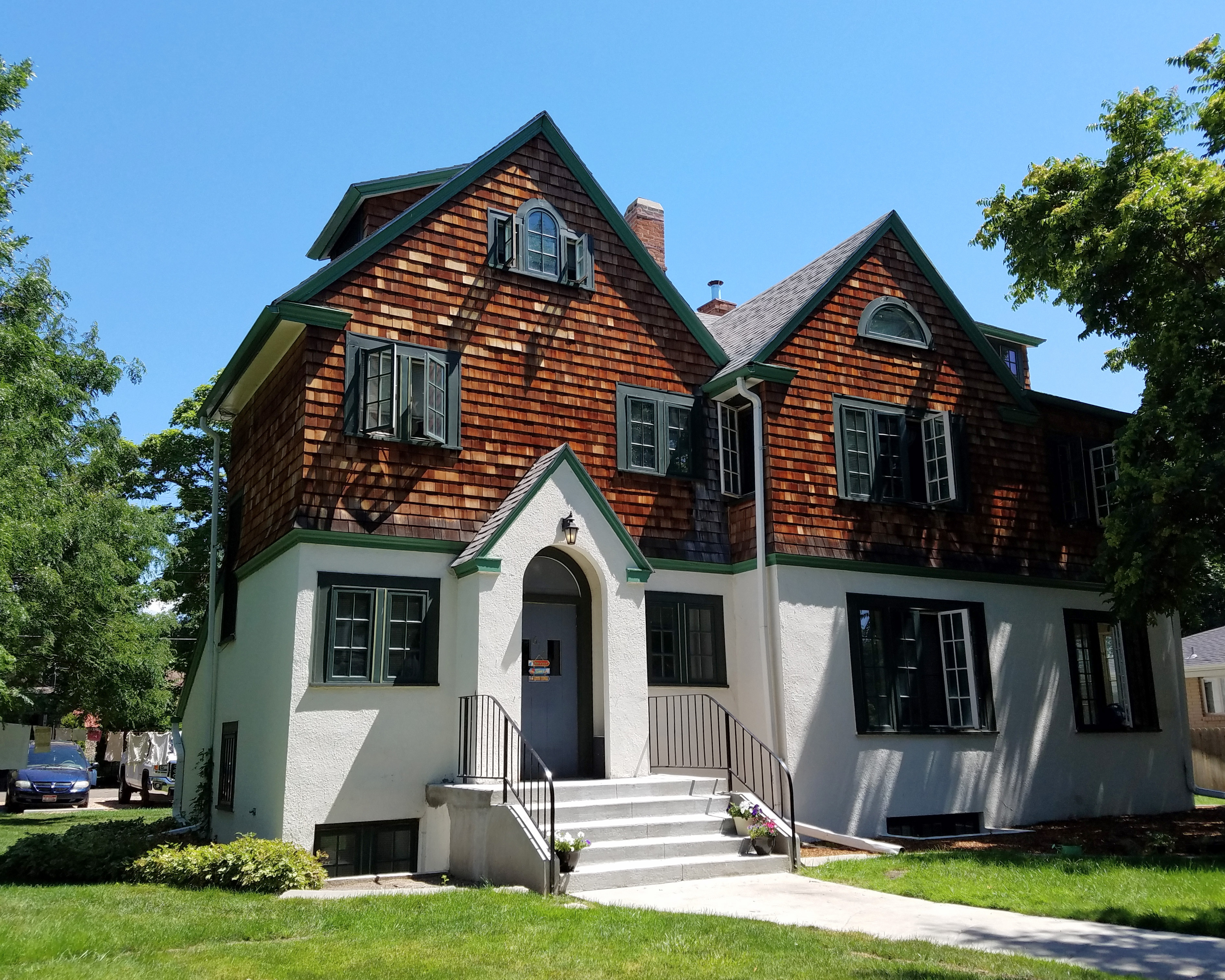 The S. H. Hays house (1892) was designed and later remodeled by Tourtellotte and Hummell. The house is listed on the National Register of Historic Places and is part of the Fort Street Historic District.